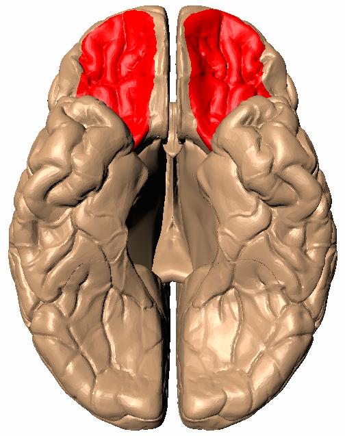 Orbital gyrus viewed from bottom.